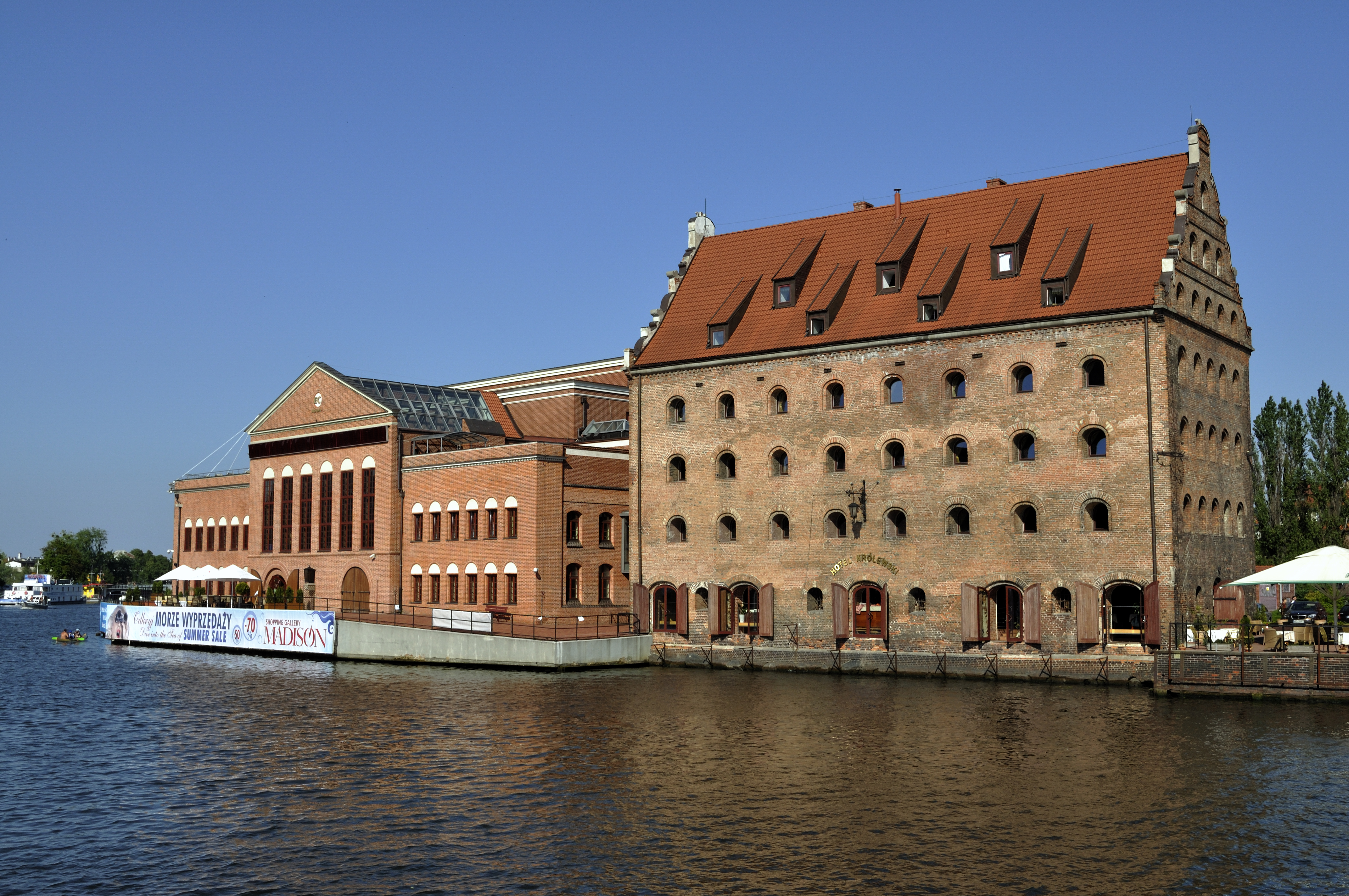 Picture taken in Gdańsk after Wikimania 2010 conference.